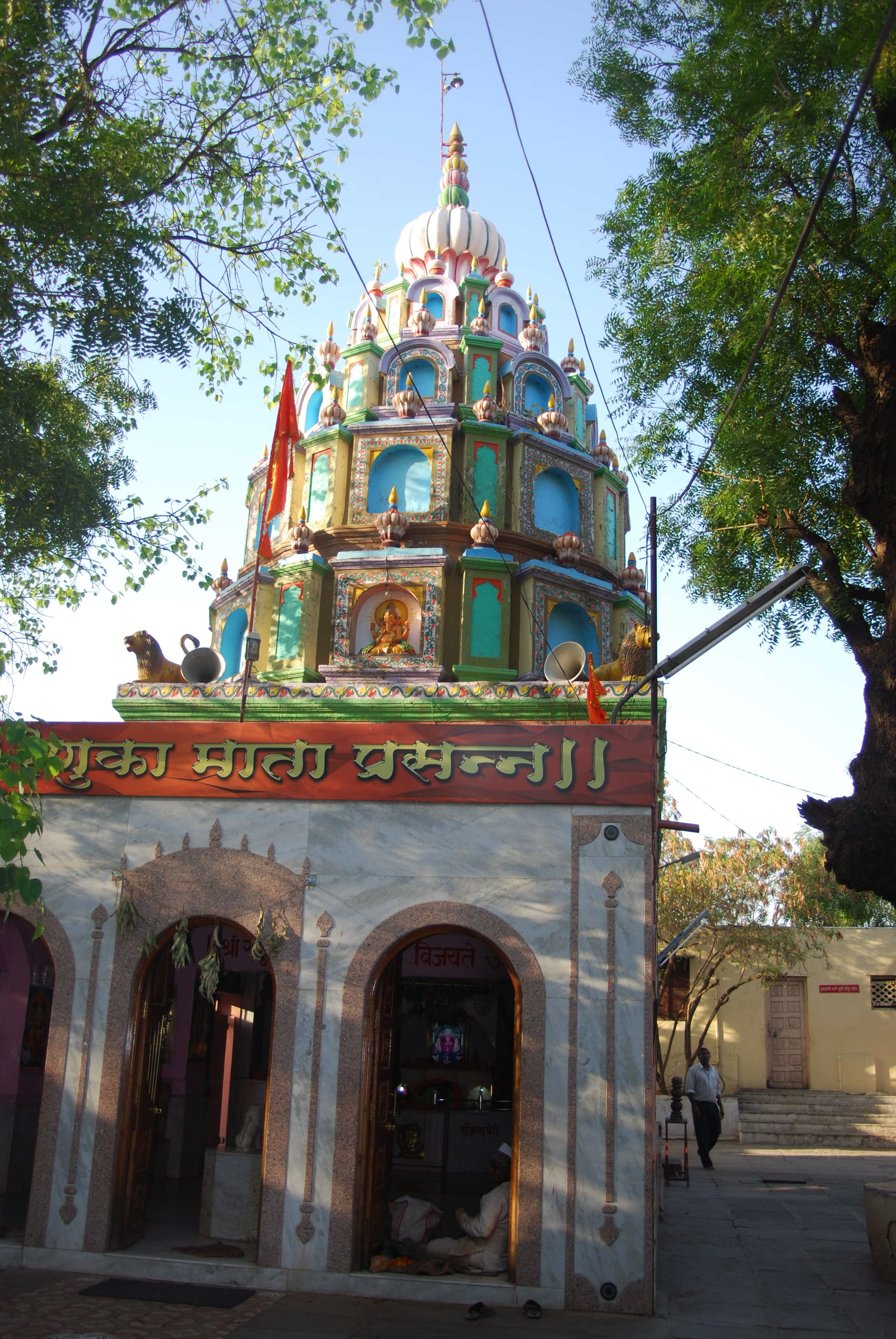 Inside Renuka Goddess Temple of Kedgaon, Ahmednagar in India.